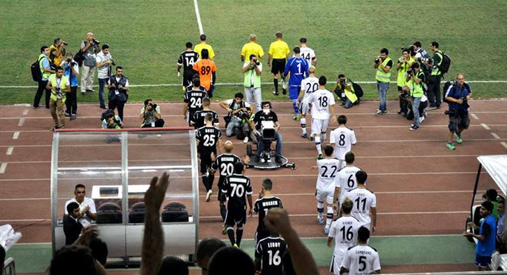 Footballers Qarabağ FK - Eintracht Frankfurt, before the match UEFA Europa League play-off round - 22/08/2013 - Tofiq Bahramov Stadium - Baku